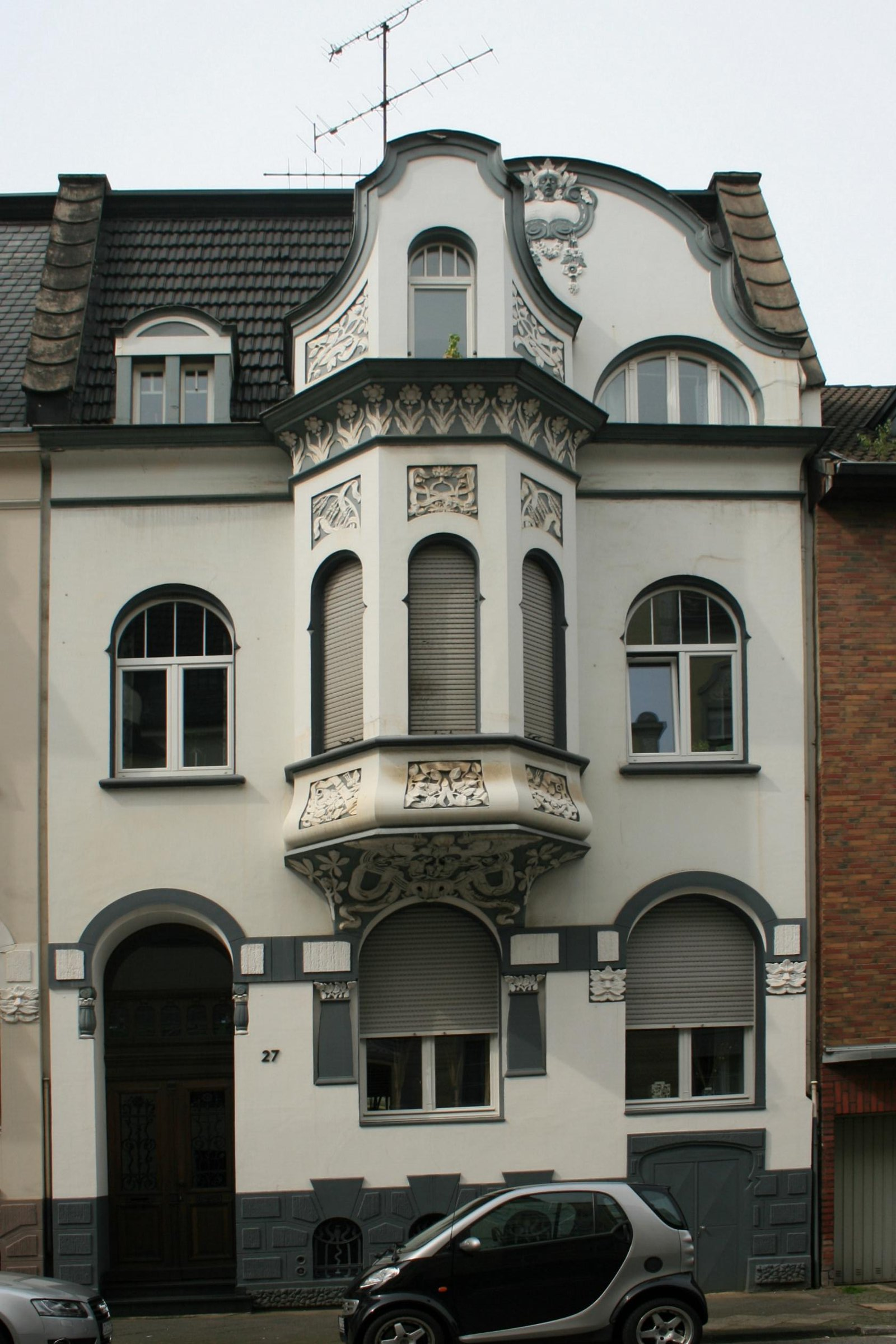 Cultural heritage monument No. G 017 in Mönchengladbach